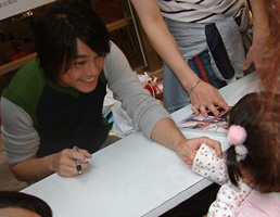 Ken Chu International Fans Club KCIFC Photoby KCIFC Philippines webmaster - ZAQ